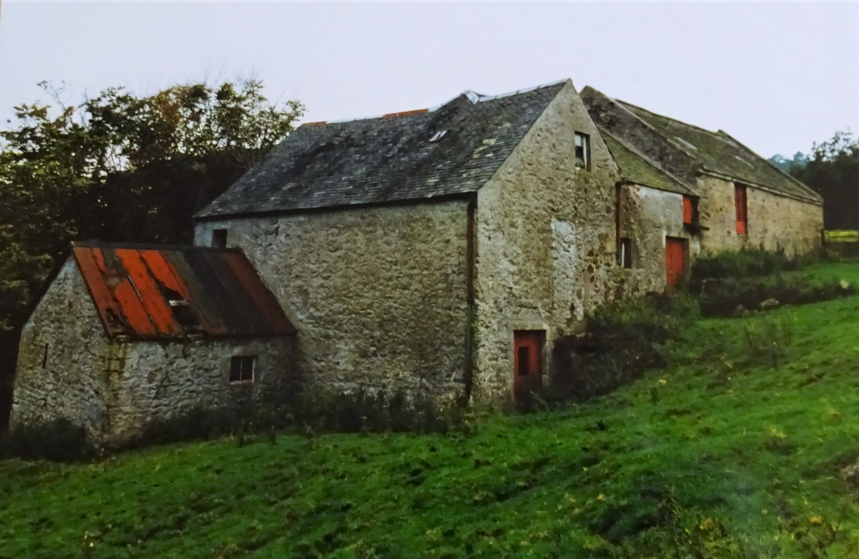 Coldstream Mill, Beith, North Ayrshire. The old mill buildings from the south east. One of the last traditional mills in Scotland when it closed circa 1995.